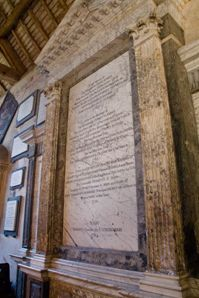 Marble funerary memorial to the Knight family of Barrells Hall, Warwichshire. Erected by Robert Knight, 1st Earl of Catherlough(1702-1772) in commemoration of his children both of whom predeceased him. In Wootton Wawen Church, Warwickshire.